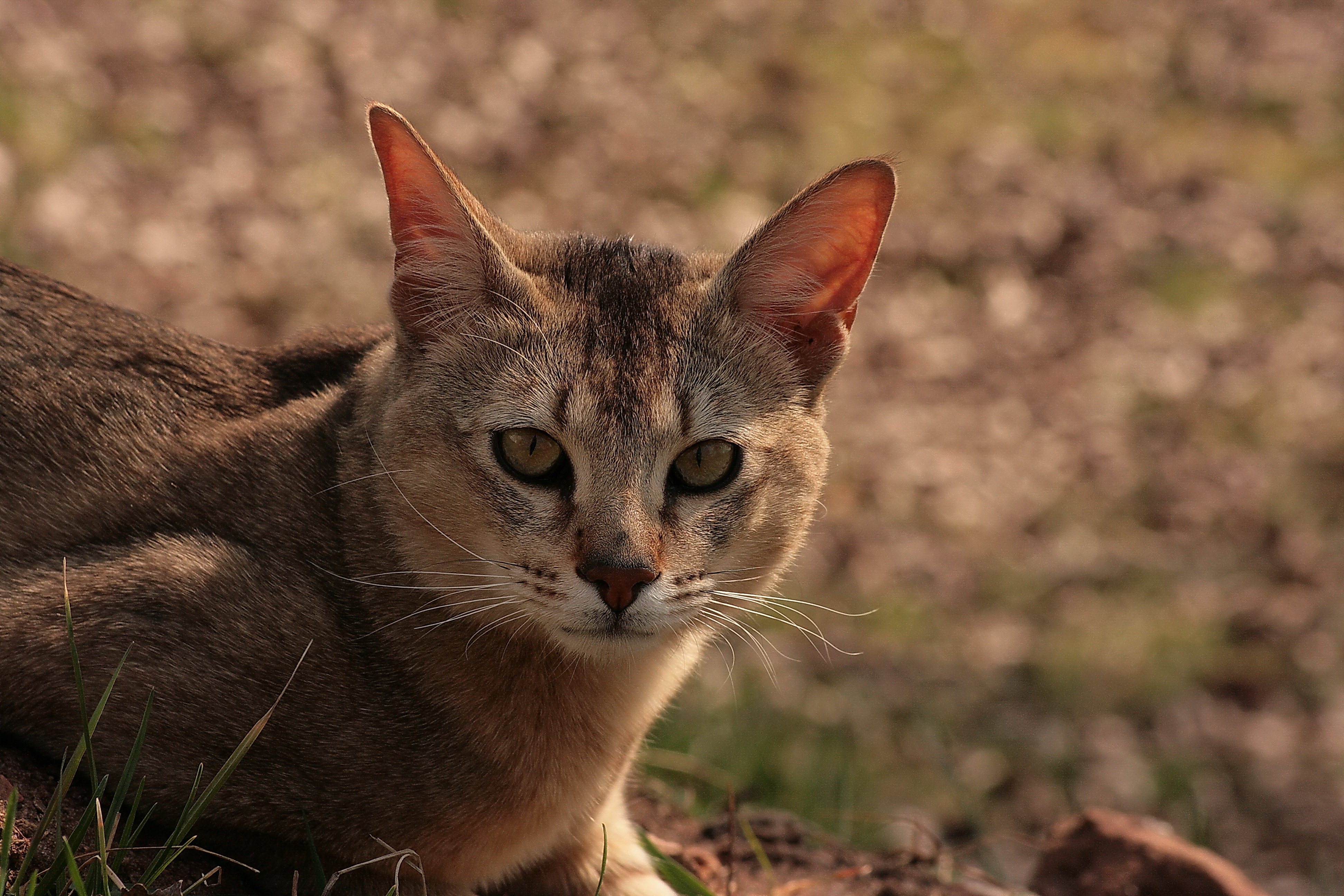 Abicatz Zamphyr